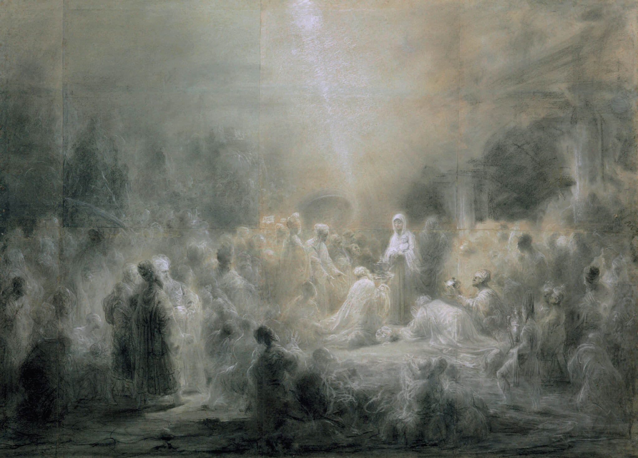 Final preparatory sketch (graphite and white chalk on cardboard) for Domingos Sequeira's The Adoration of the Magic, c. 1828. In the collection of the National Museum of Ancient Art, Lisbon, Portugal.